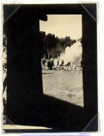 One of four photographs from Auschwitz-Birkenau in Nazi-occupied Poland, part of a series known as the Sonderkommando photographs. The photograph shows bodies waiting to be burned. Bodies were burned in outdoor fire pits when the crematoria were full.